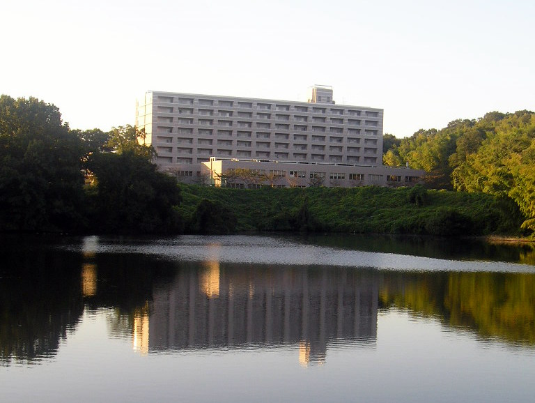 I was selected to attend a 6-week course on project development for human security in Japan last year. I was with 2 other Filipinos from national government agencies. Three Laos and 3 Burmese were also participants in the course. I am the only one coming from an NGO. Our first 2 days were spent in Osaka where we stayed in this spanking JICA center where we were briefed. Olympus Camedia (October-December 2006, JICA-UNCRD Human Security Course). Slightly improved with Picasa.